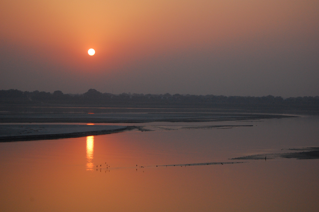 Sunset on the Ganga, near Allahabad. taken at Habeliya, Jhusi Kohna.